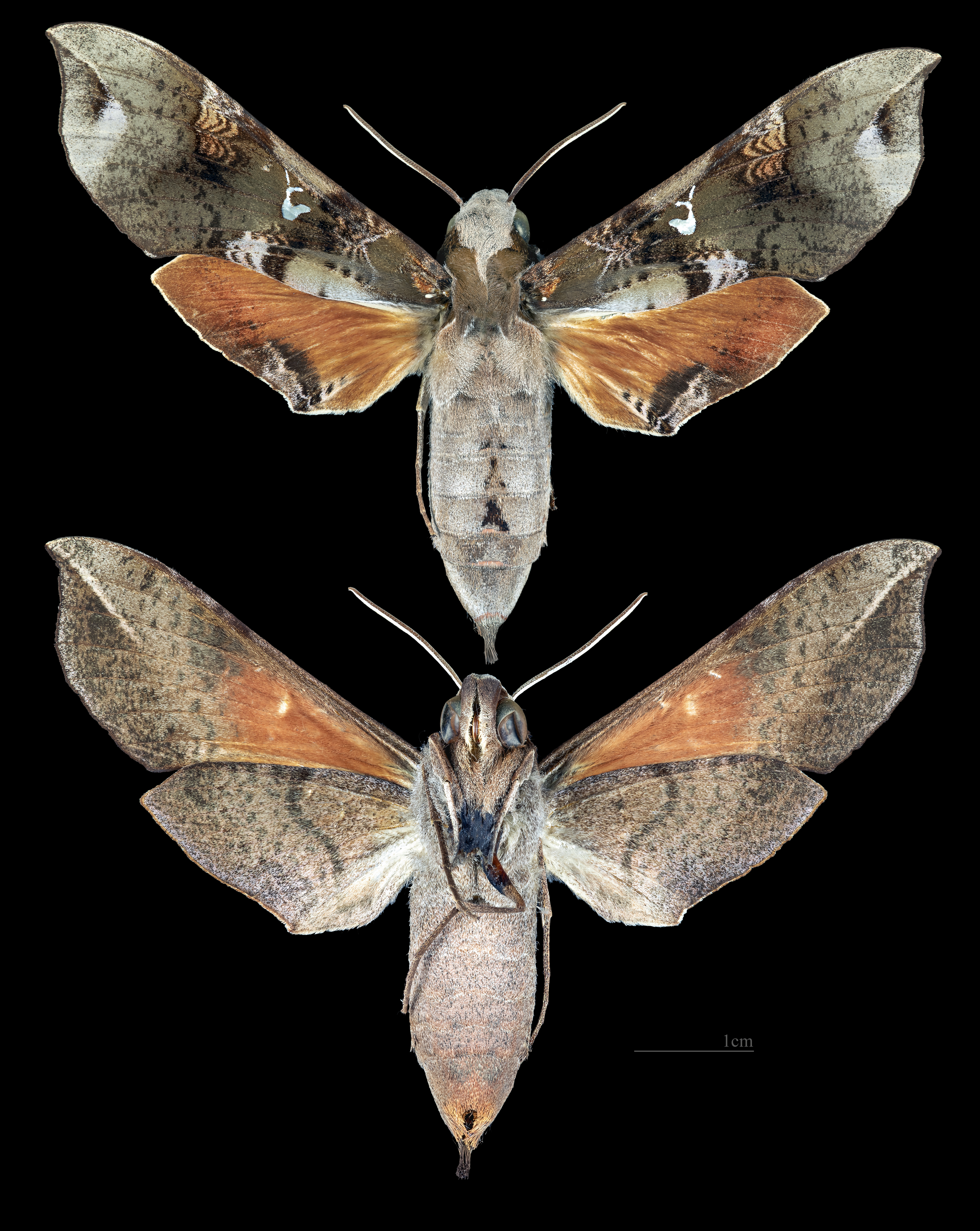 Parce Sphinx Moth - Two views of same specimen Collection of the Mathematician Laurent Schwartz